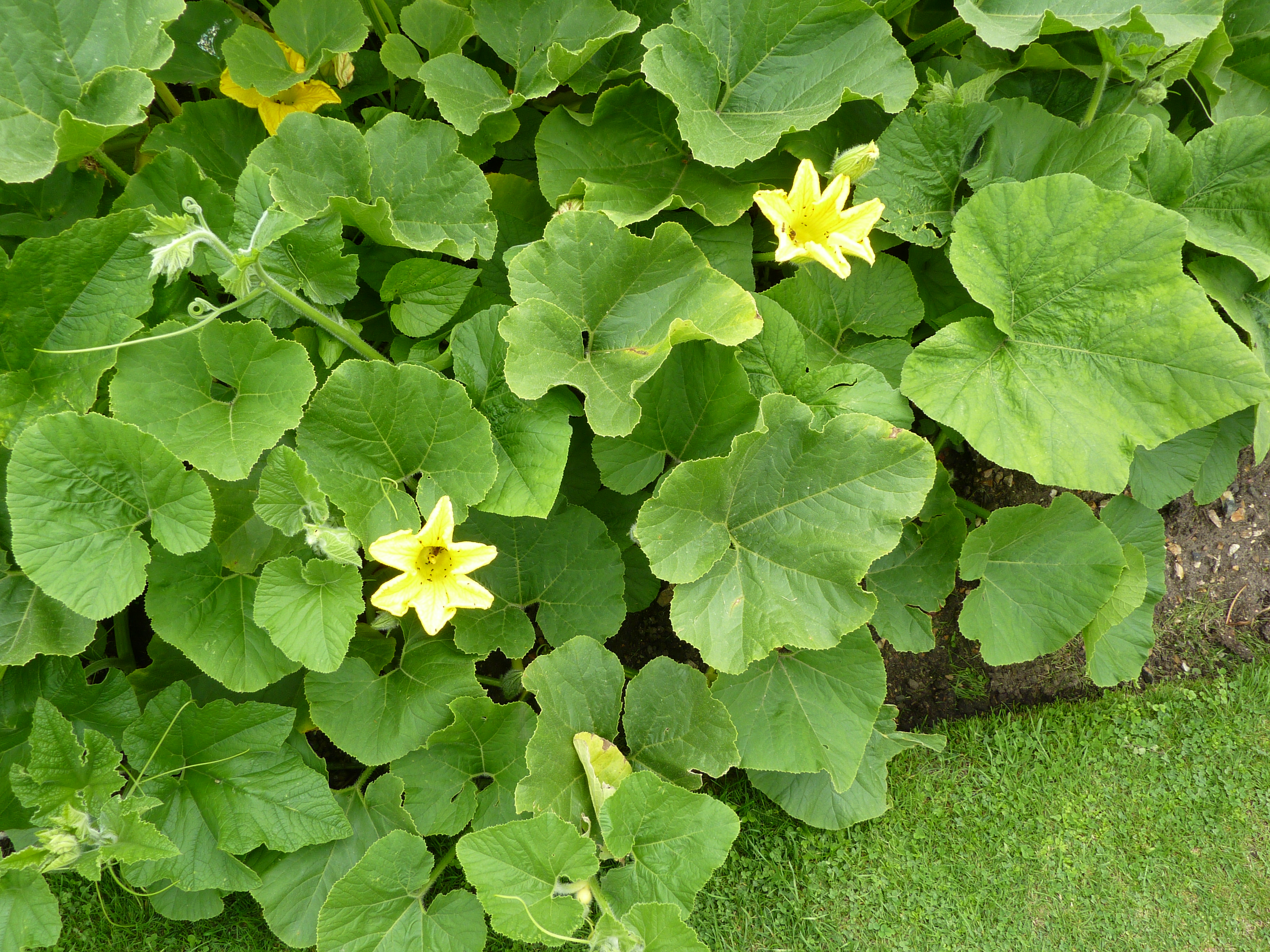 Thladiantha villosula, Cambridge University Botanic Garden